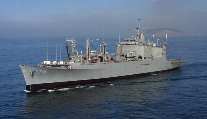 USS Mount Hood (AE-29), an ammunition ship of the U.S. Navy, heading out of San Diego Bay on September 30, 1997.